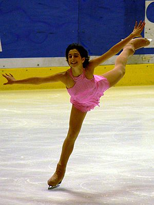 Manuela Stanukova perform a spiral during her free skate at the 2005 Junior Grand Prix event in Zagreb, Croatia